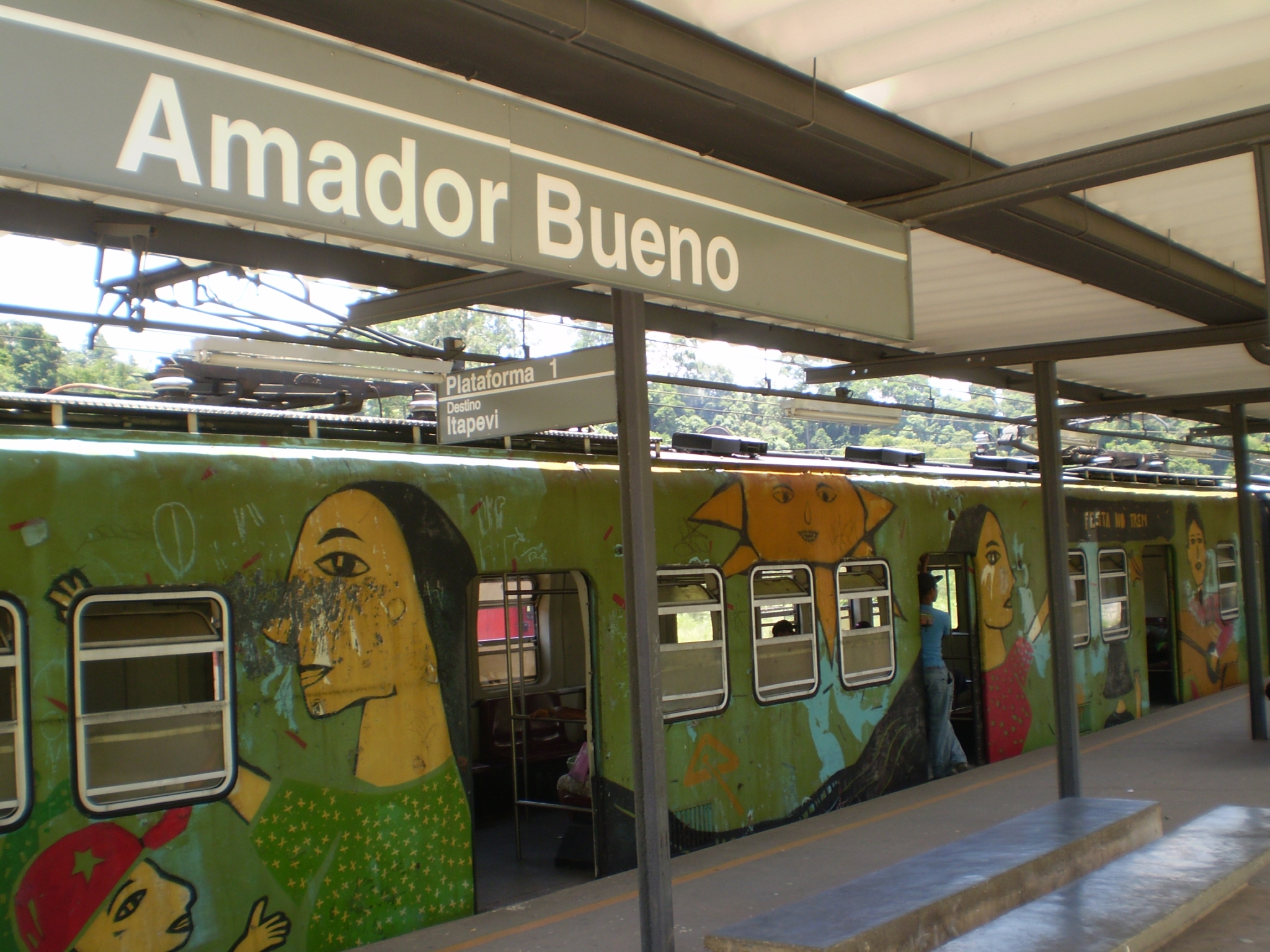 Photo of Amador Bueno Station